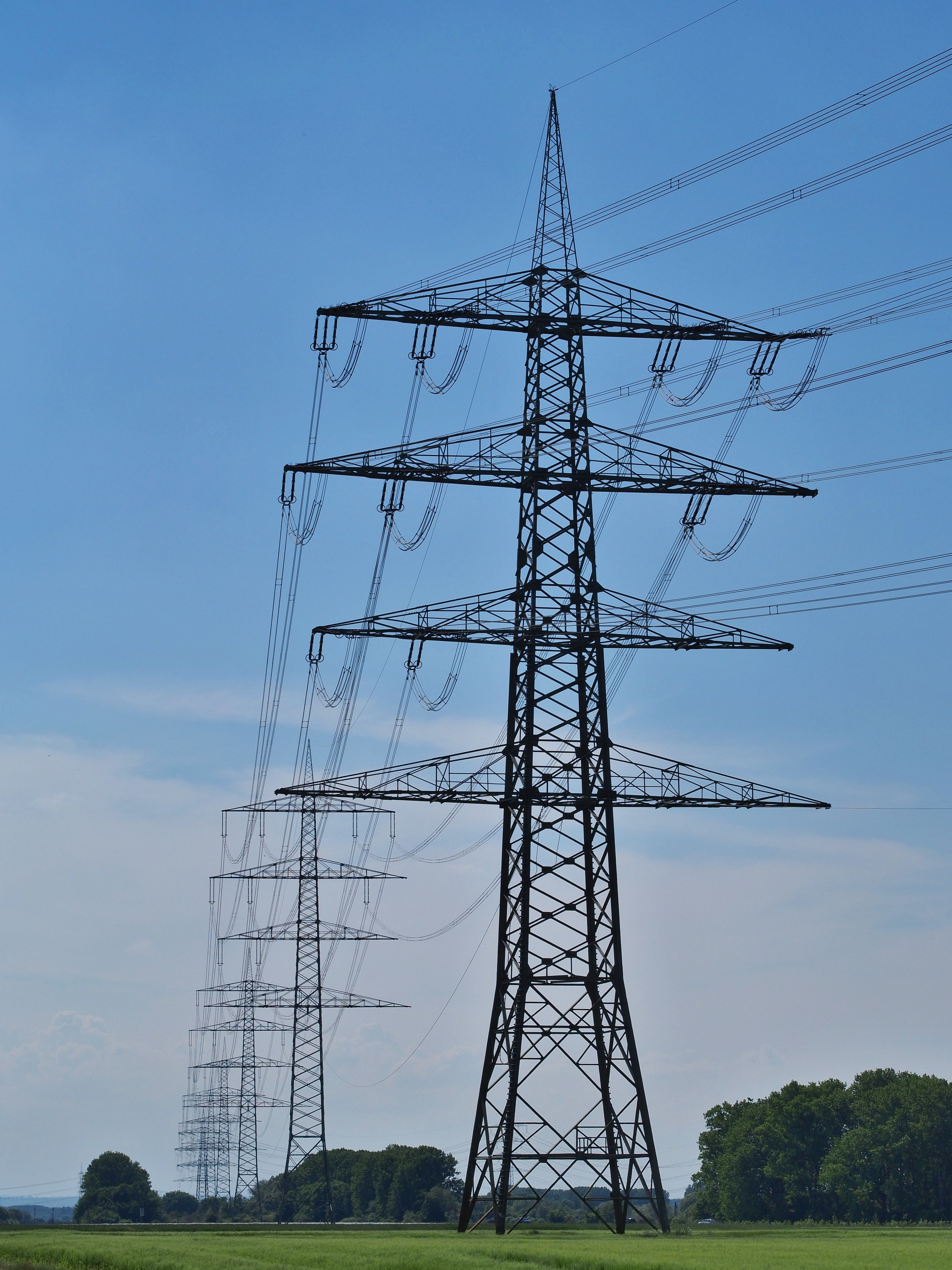 380 kV power line from Biblis nuclear power plant to Pfungstadt substation in Groß-Rohrheim.